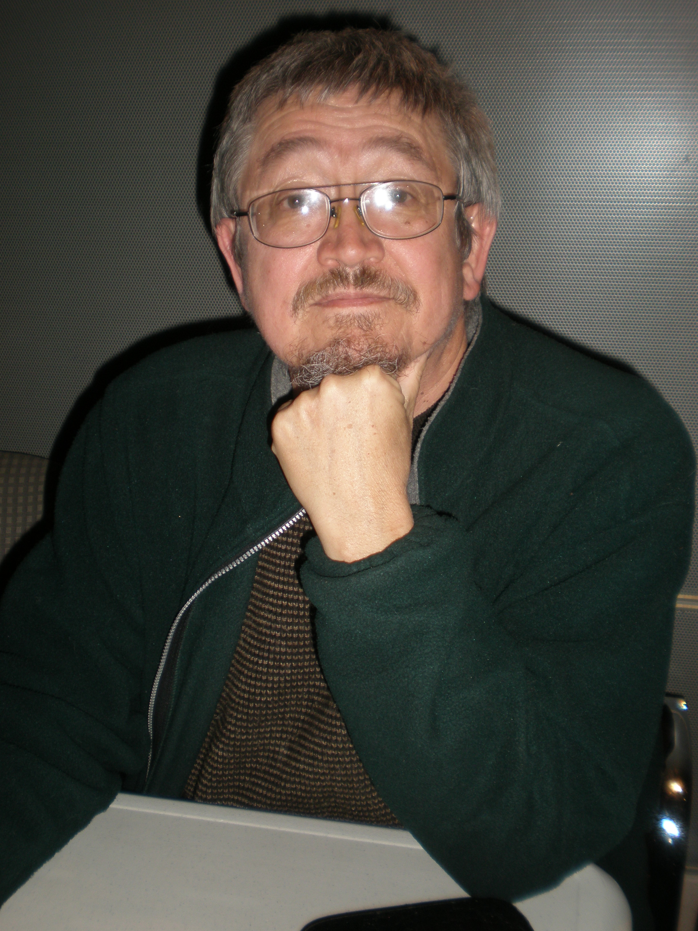 Author Tamim Ansary at the San Francisco Public Library after participating in a panel discussion titled "Rebuilding Afghanistan: Literary, Artistic and Cultural Endeavors" as part of San Francisco's One City One Book 2008 program focusing on his book West of Kabul, East of New York.